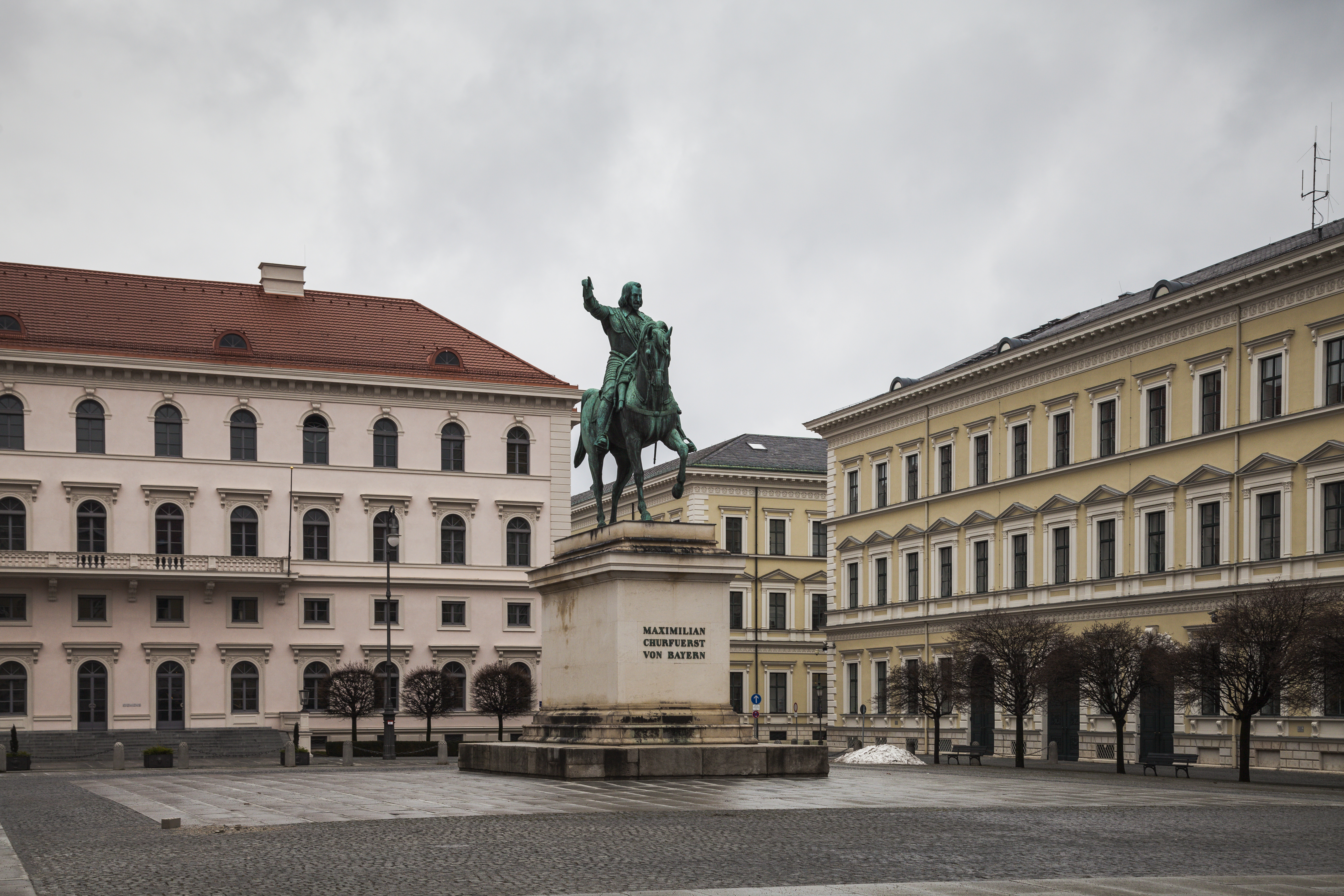 Wittelsbacherplatz, Munich, Germany